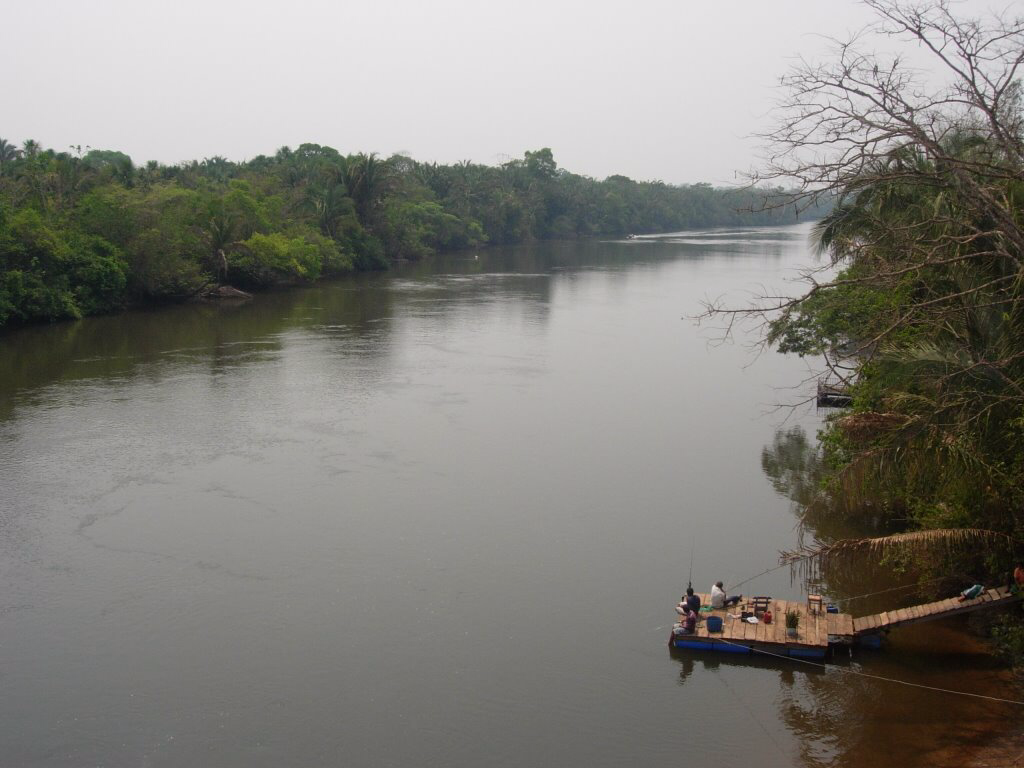 Rio Sepotuba